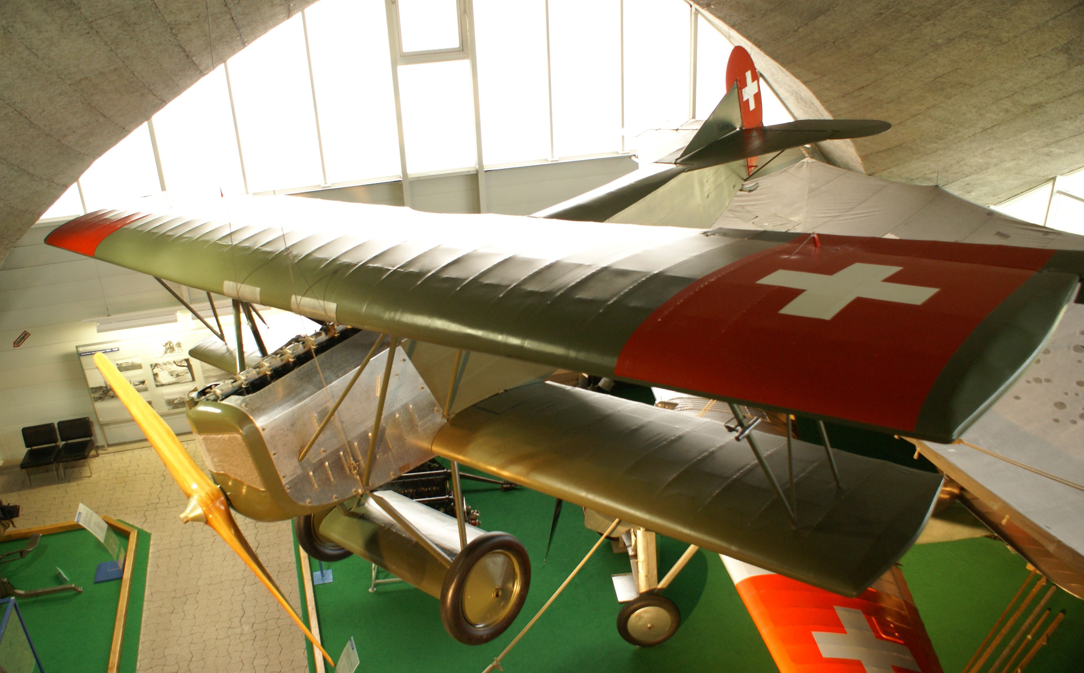 Fokker D VII fighter aircraft as used by the Swiss Army Air Corps from 1920 to 1938.